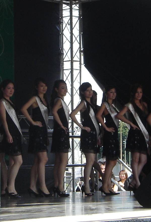 Miss China UK 2008 contestants, the pagaent is used as a preliminary event for the Miss Chinese International Pageant. The winner will go on to represent the UK against the winners of similar contests held in other countries. Taken in car park opposite main entrance of London's Brent Cross shopping centre.